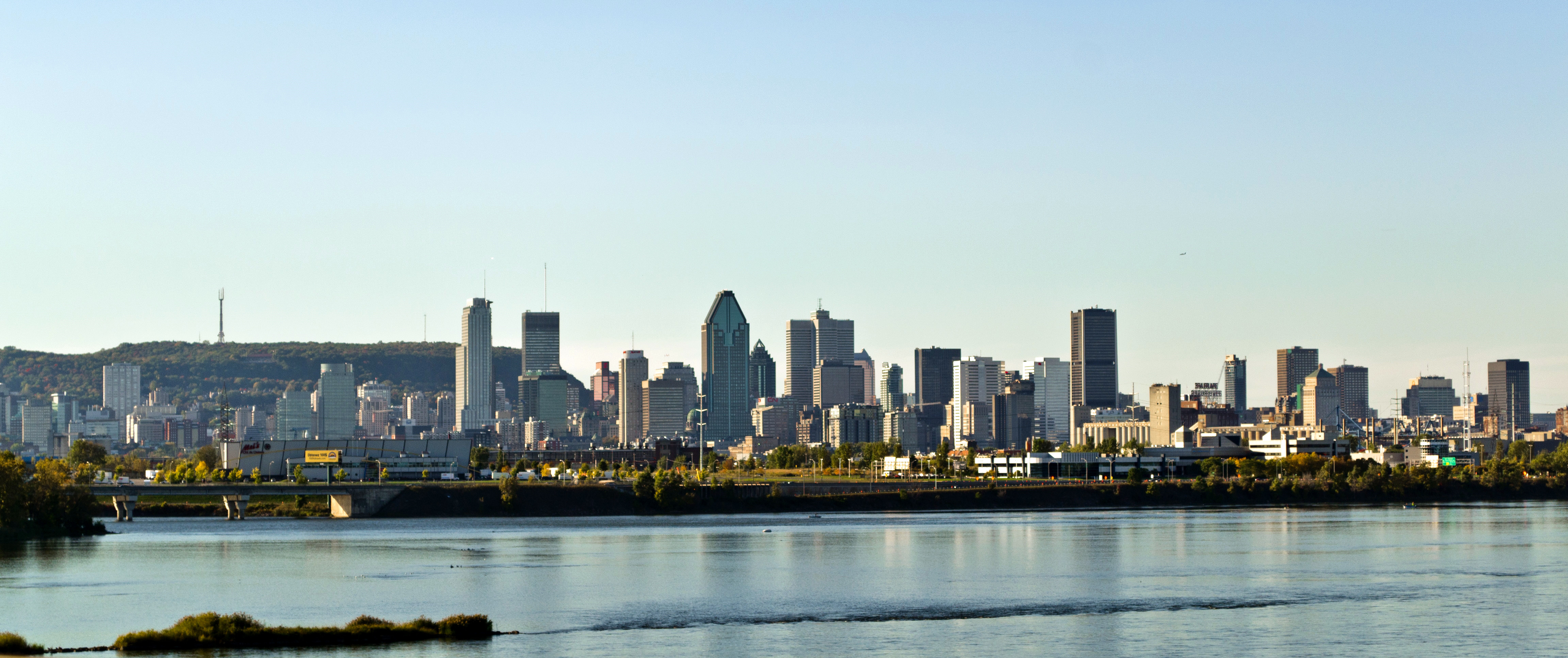 The skyline of Montreal seen from the Champlain Bridge on September 28, 2013